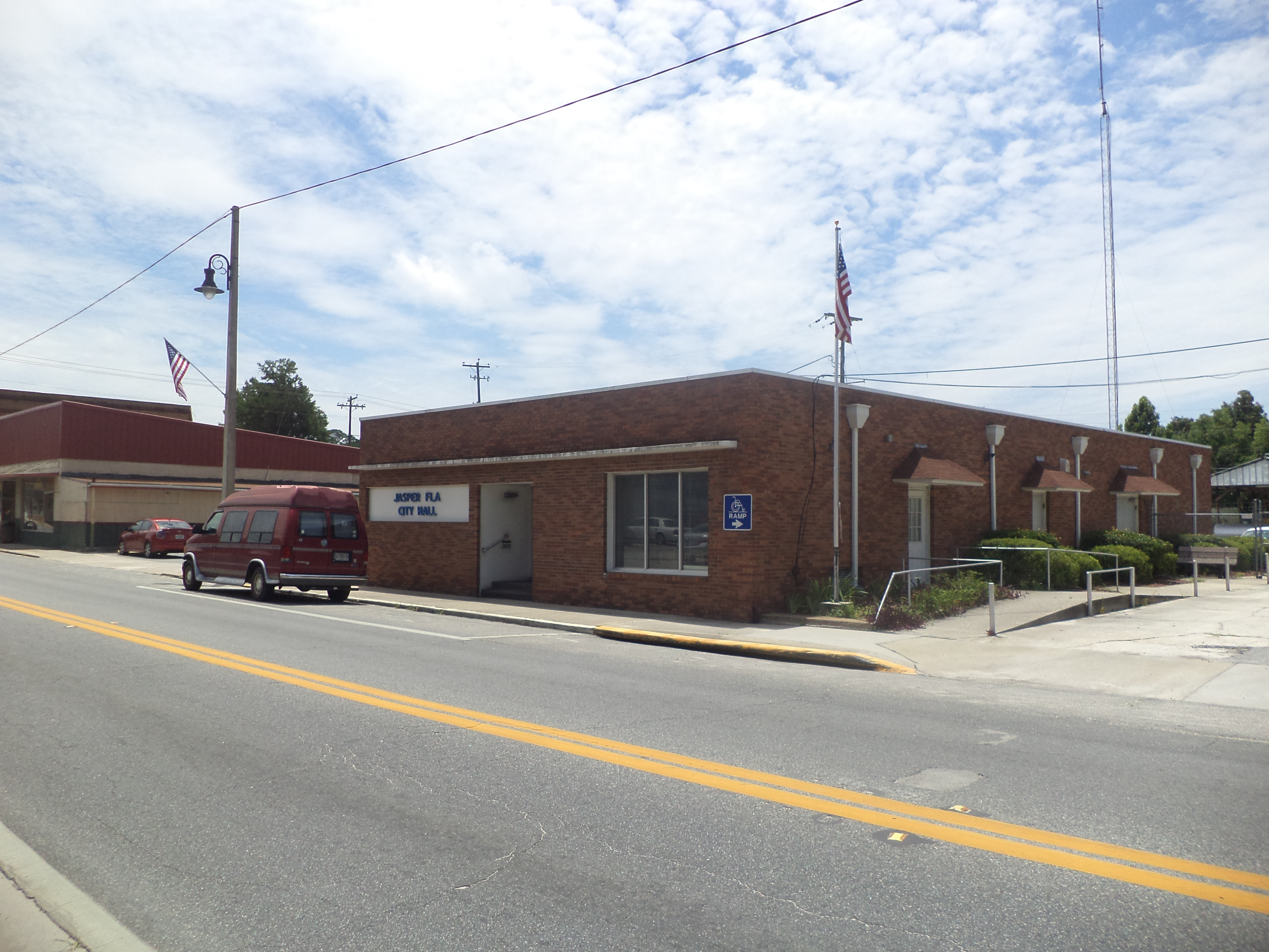 Jasper City Hall, Jasper, Hamilton County, Florida